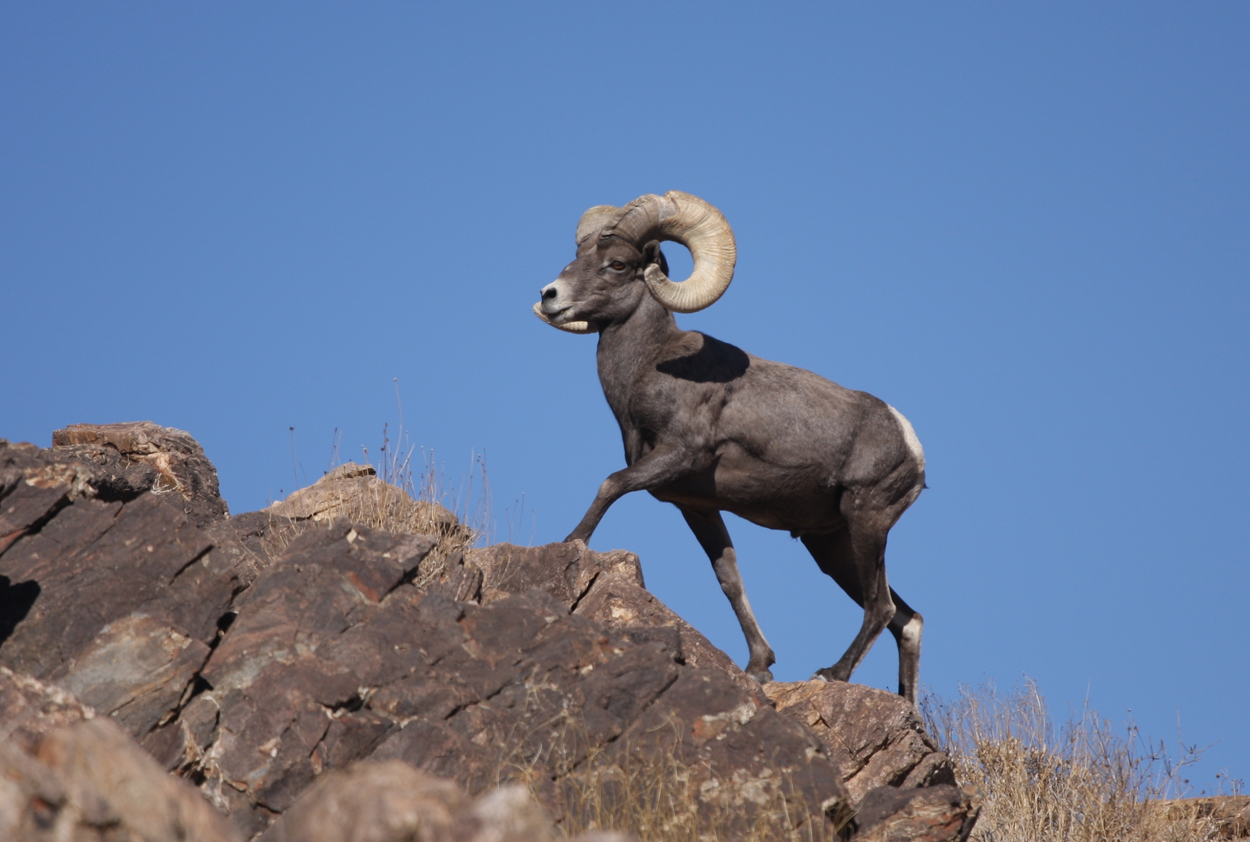 Desert Bighorn Sheep(Ovis canadensis nelsoni) in Joshua Tree National Park.